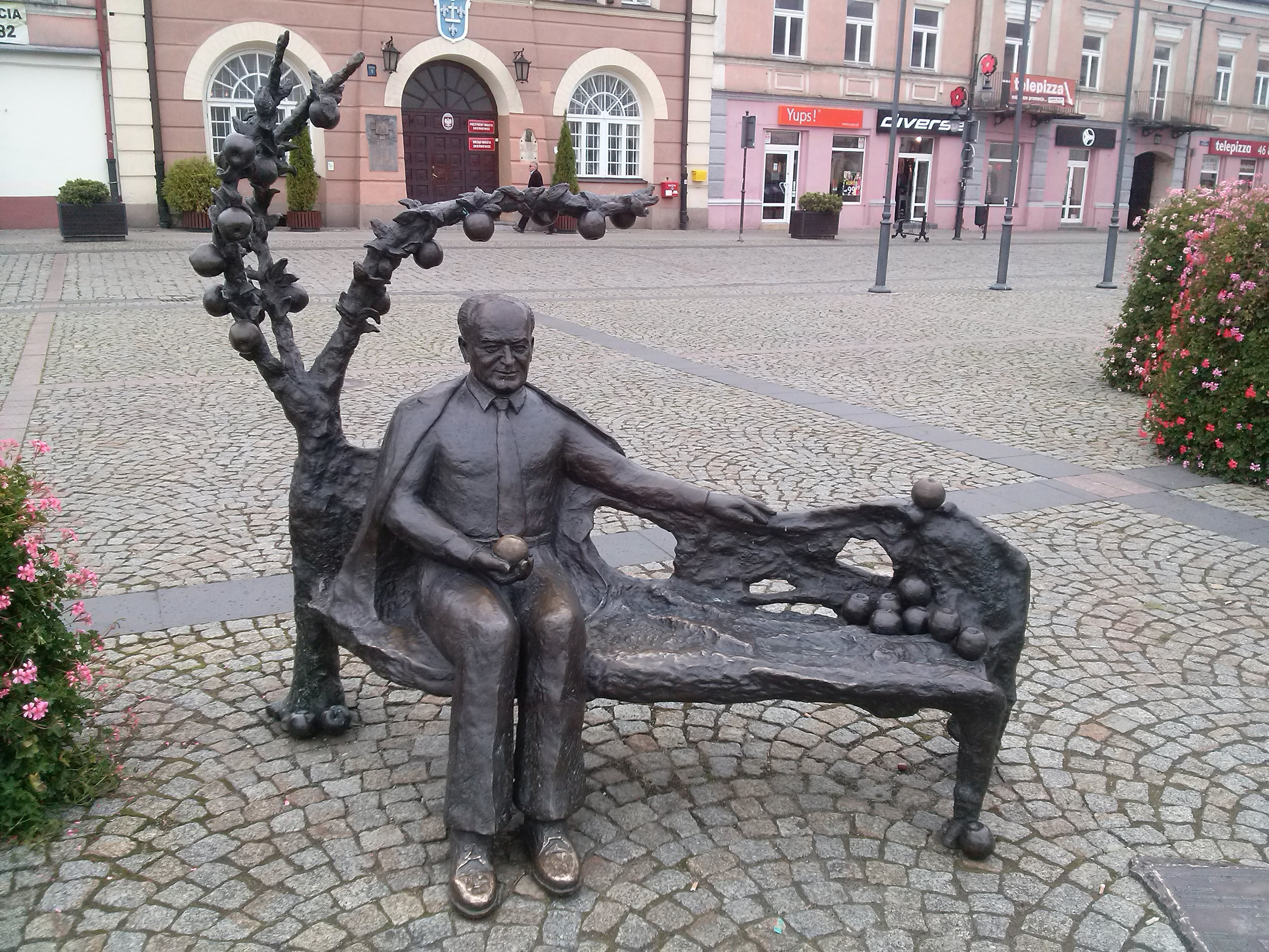 Professor Szczepan Pieniążek bench, Skierniewice Main Square